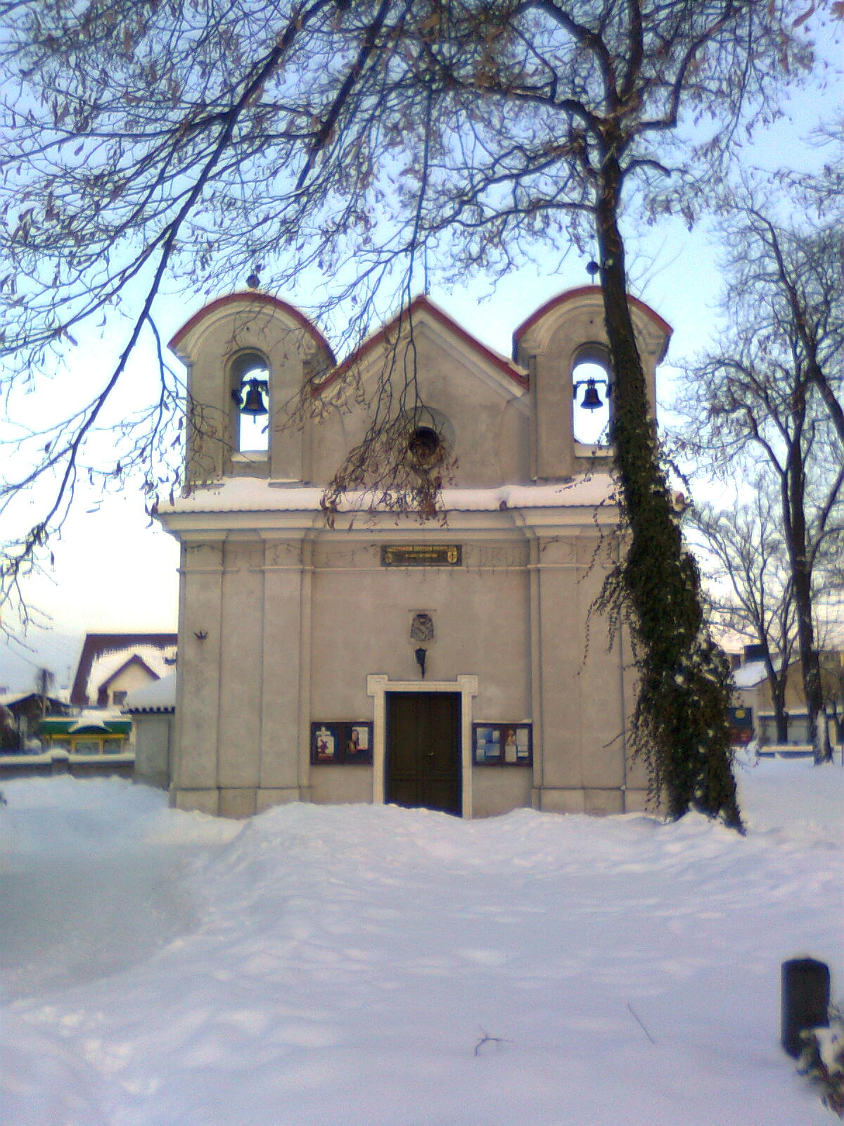 Skierniewice - church of Saint Stanislaus